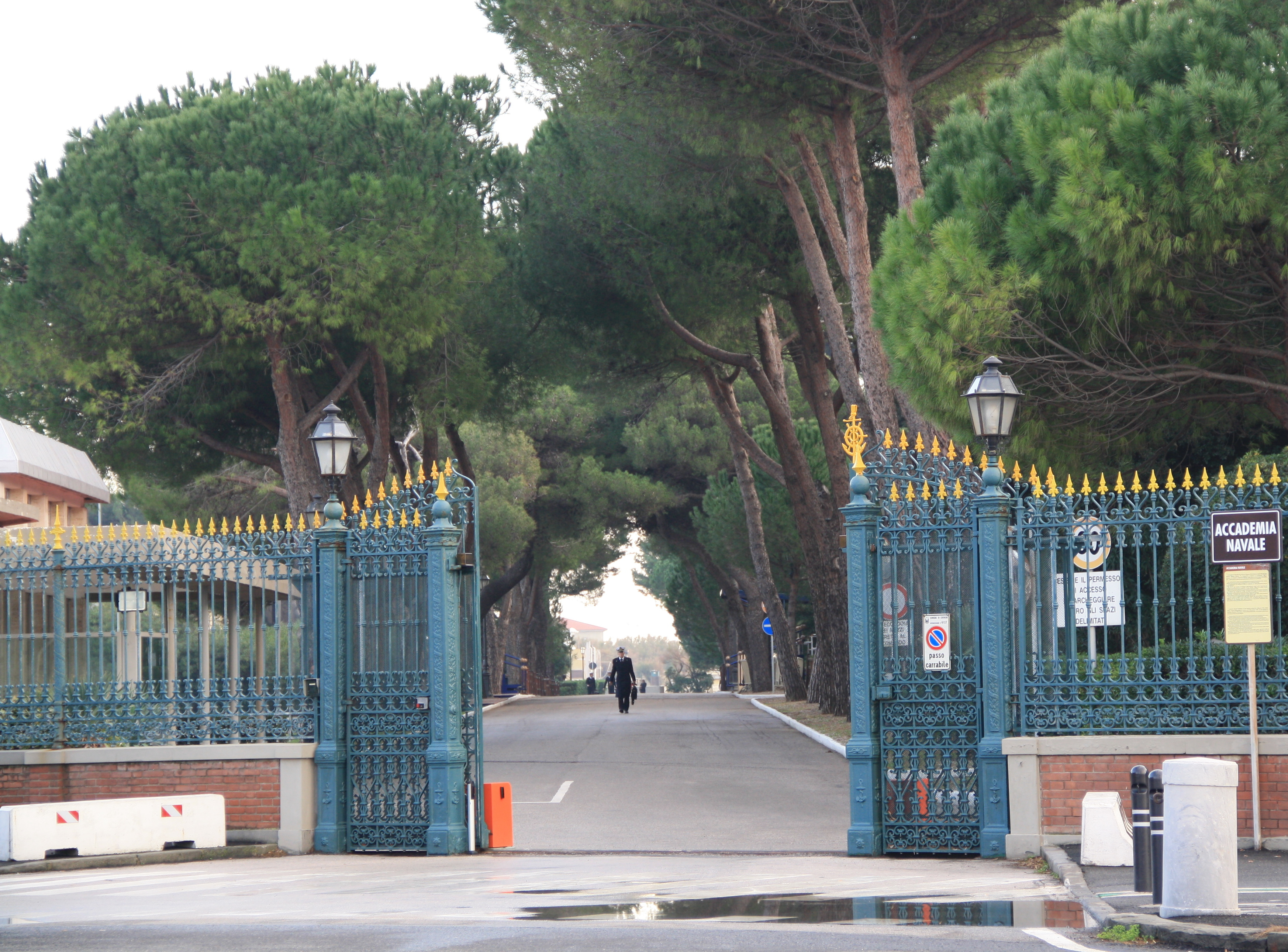 Italy, Livorno, Viale Italia, Italian Naval Academy. “San Jacopo” (St. James) gate so called because the Academy was built on the site previously occupied by Lazaretto of San Jacopo, an isolated hospital, where the crews of the ships coming from the Near East were quarantined.